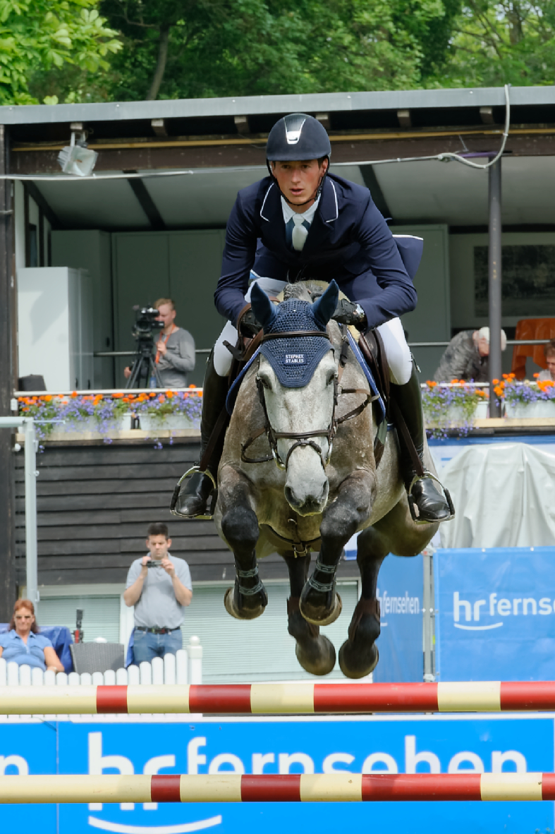 CSIYH* int. Springprüfung nach Strafpunkten und Zeit Internationales Pfingstturnier Wiesbaden 2015 The making of this document was supported by the Community-Budget of Wikimedia Germany.